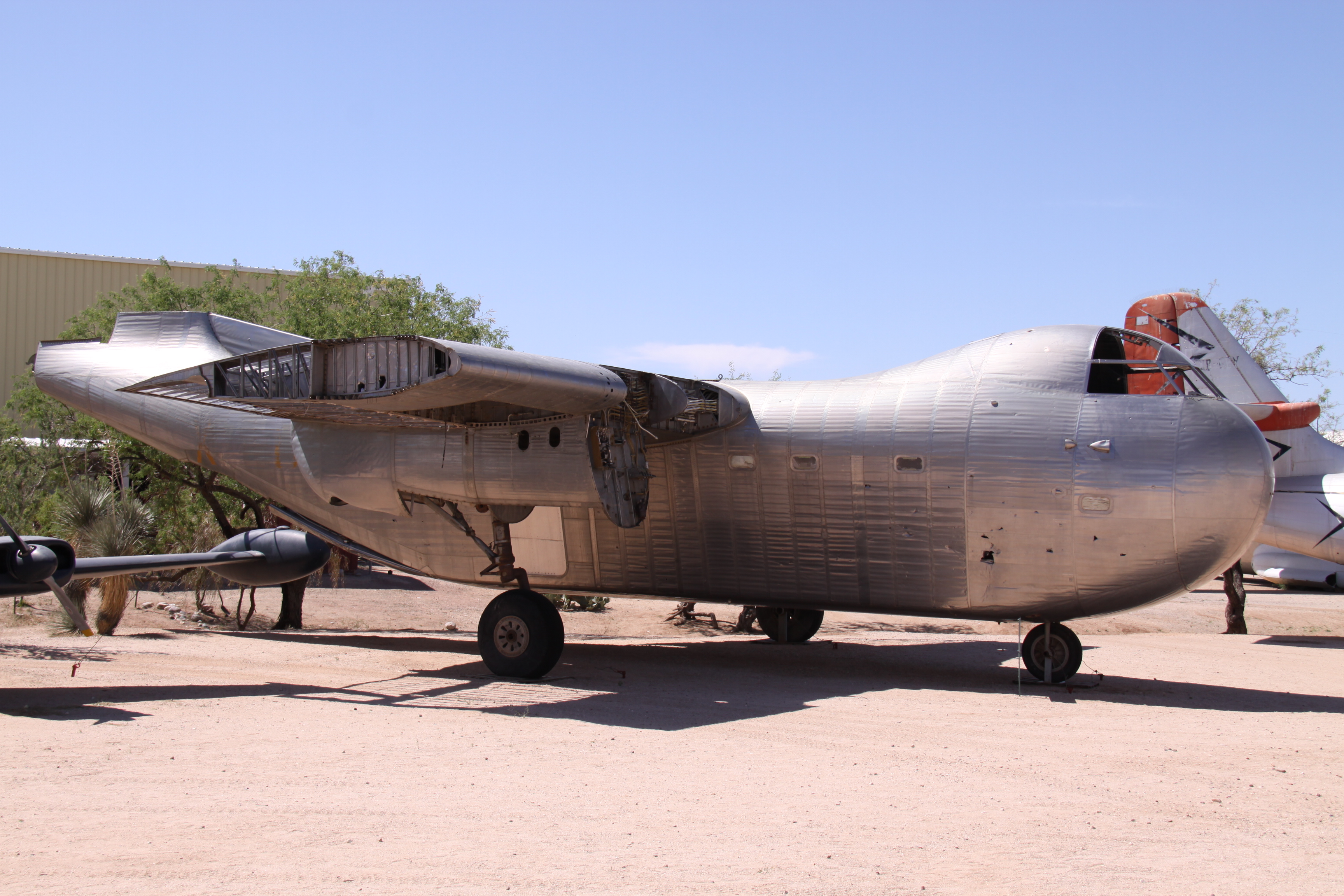 At Pima Air & Space Museum